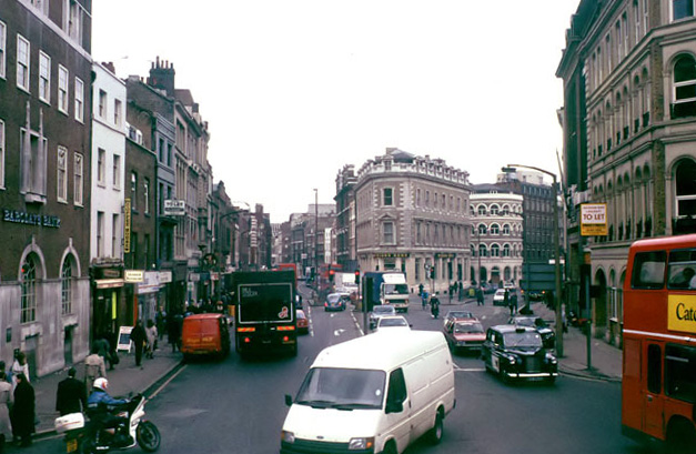 Borough High St from a route 21 bus, 1989 Waiting at the traffic lights for the London Bridge station turning, the major junction ahead is where Southwark St forks right.